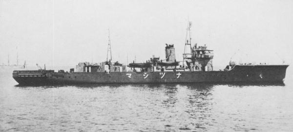 Japanese minelayer "Natsushima", completed July 31, 1933.